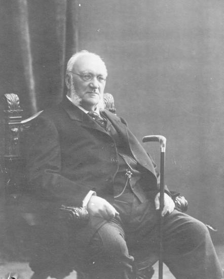 Andrey Alexandrovich Lieven (1839-1913). Russian Minister of State Properties in 1877-1881